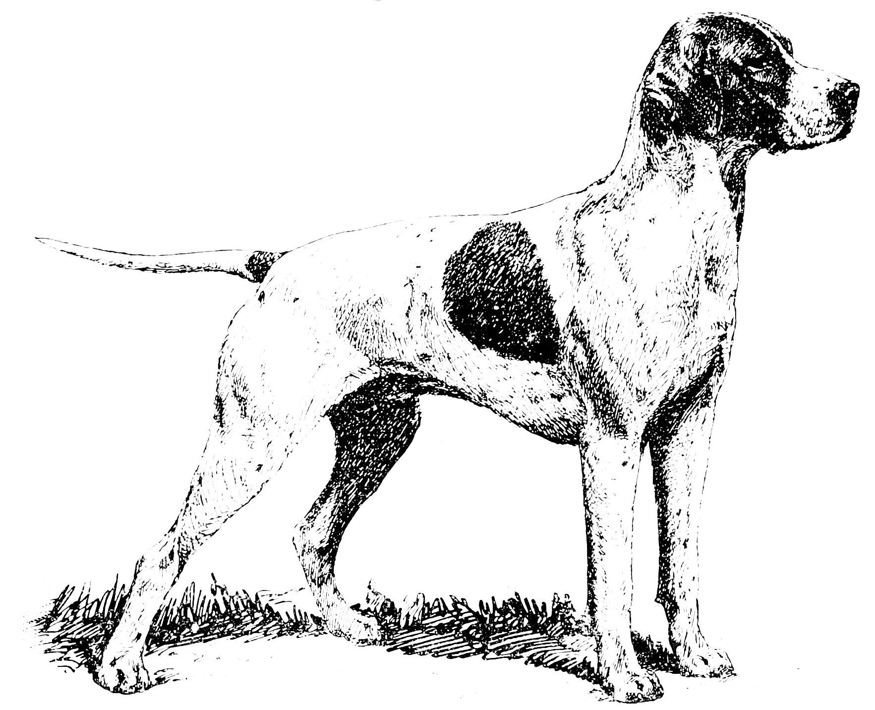 The pointer champion Bracket